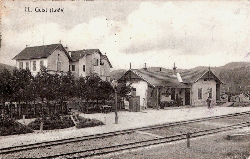 The former train station in Loče, Slovenia (till 1918 known under the German name Heiligengeist). The building was torn down after 1962 when the narrow gauge railway Poljčane - Slovenske Konjice - Zreče was abandoned